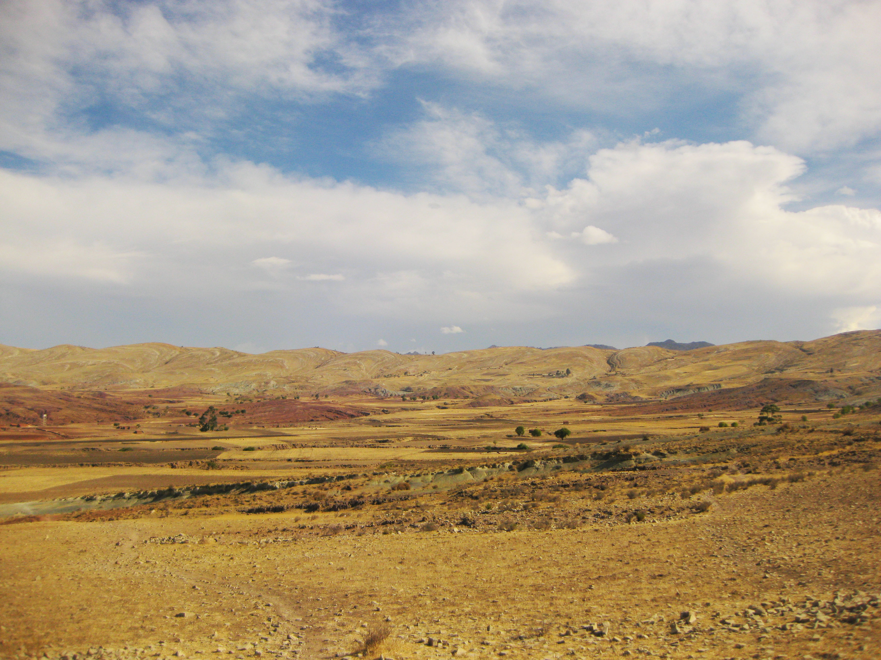 Cordillera de los Frailes - Maragua crater